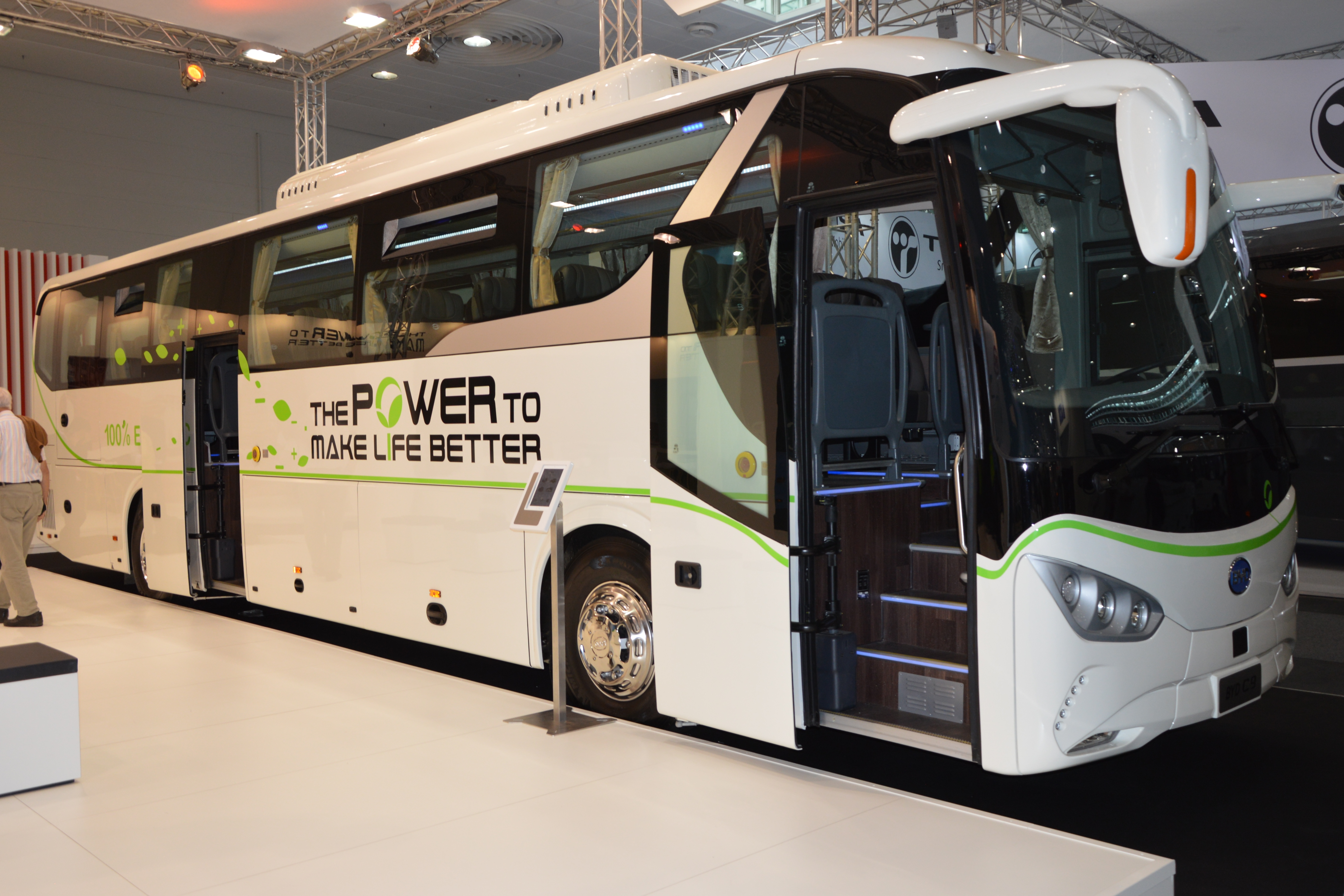 BYD C9 electric coach. The worldwide first long range, 100% battery-electric coach. Seating capacity: 47. 365 kWh Li-ion iron phosphate battery pack with charging time of less than two hours. Highway speed 62.5 mph (101 km/h).